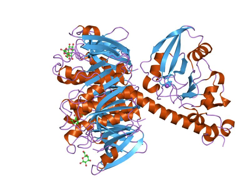 Cartoon representation of the molecular structure of protein registered with 1s5f code.